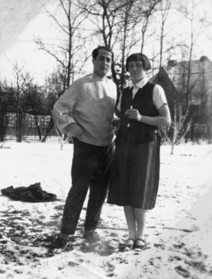 Stefan and Ole - Katharina Wolpe's parents in 1927 at Else Schlomann's house near Berlin